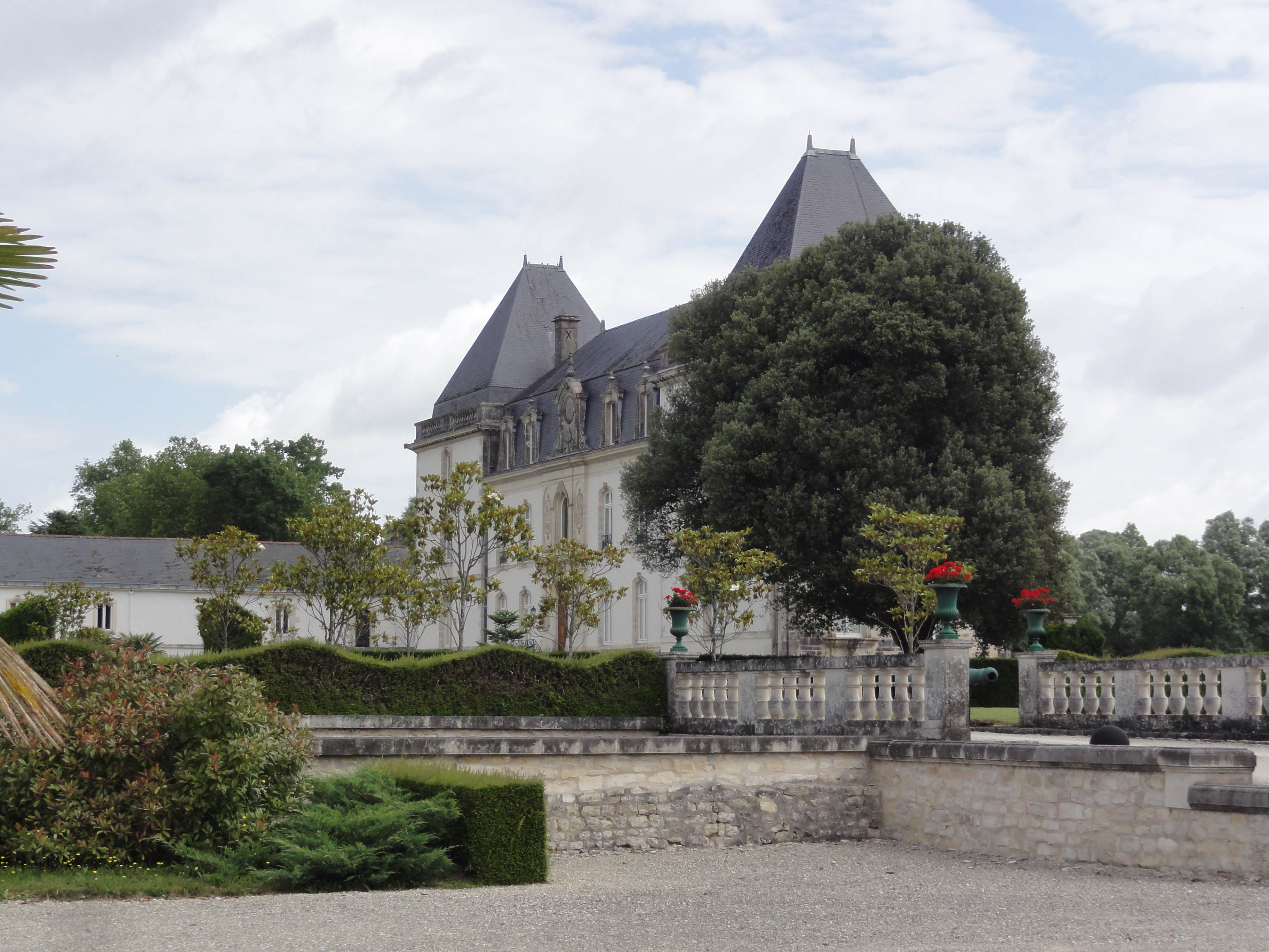 Vervant (Charente-Maritime) château .